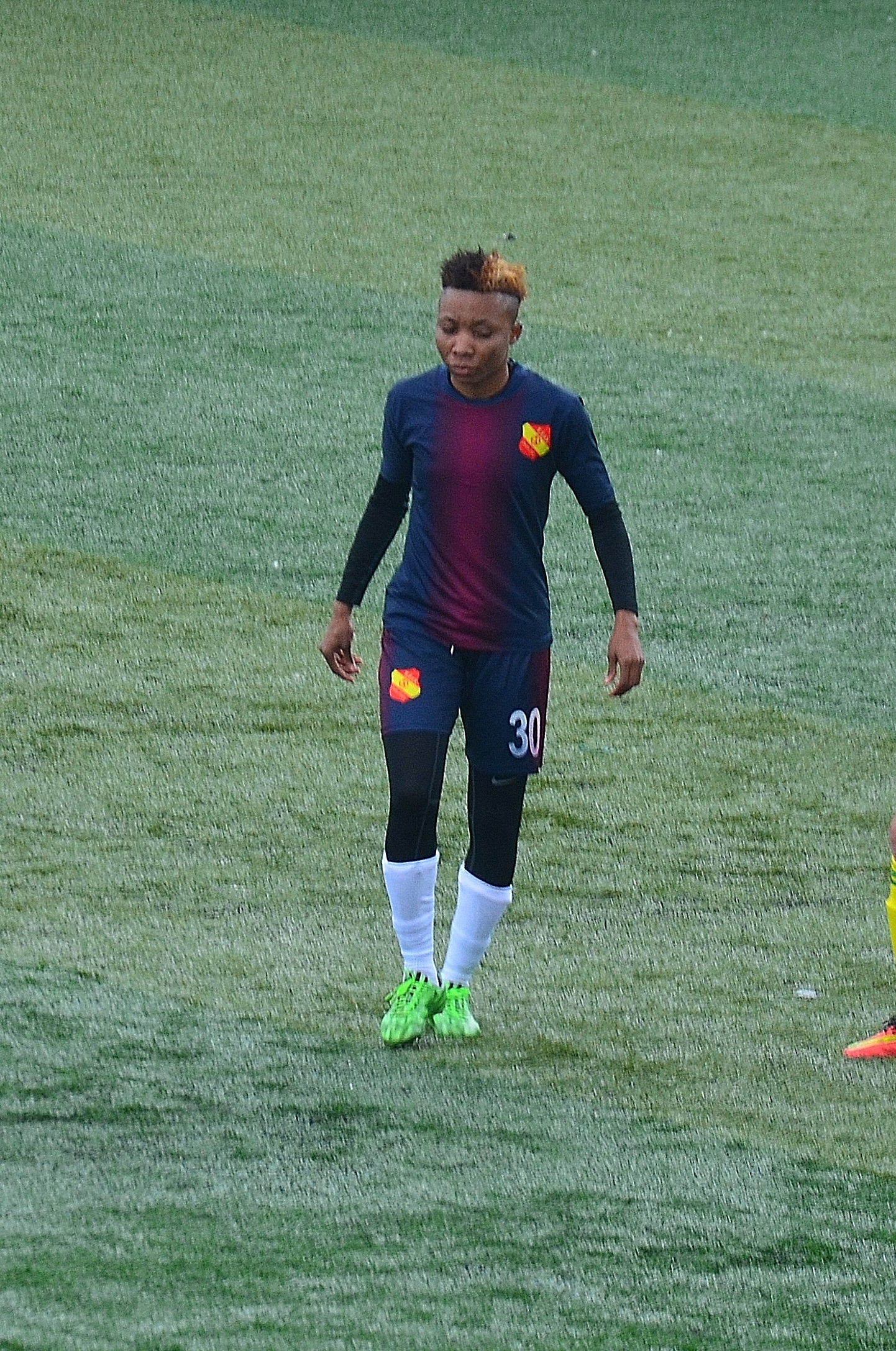 Estehr Sunday playing for Trabzon İdmanocağı (women) in the 2015-16 Turkish First League